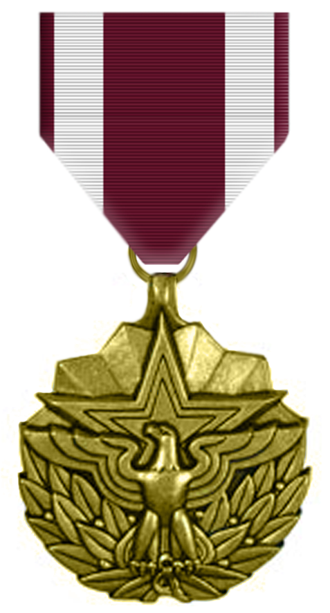 The Meritorious Service Medal, a medal of the United States military